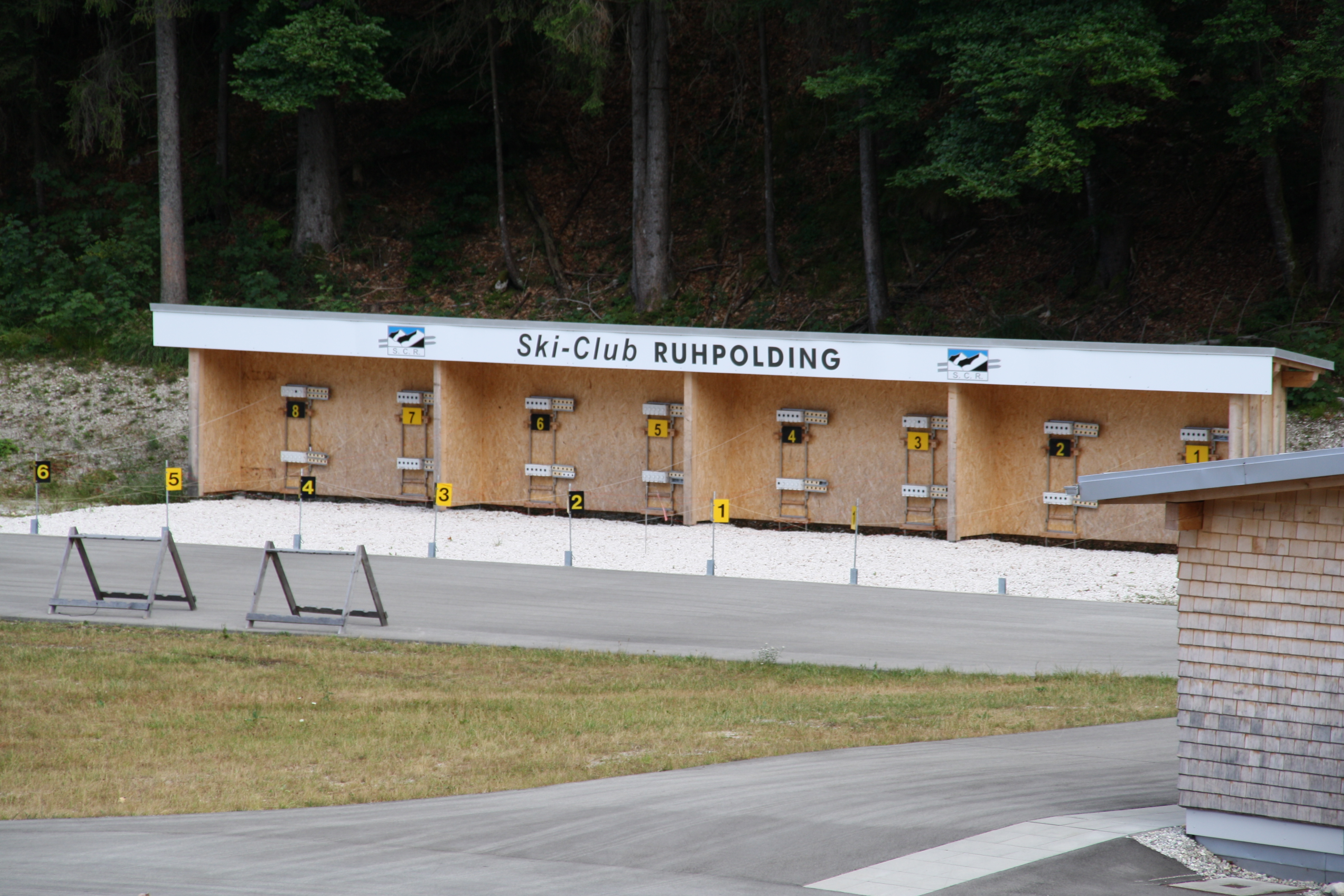 Biathlon junior shooting site at Chiemgau-Arena Ruhpolding